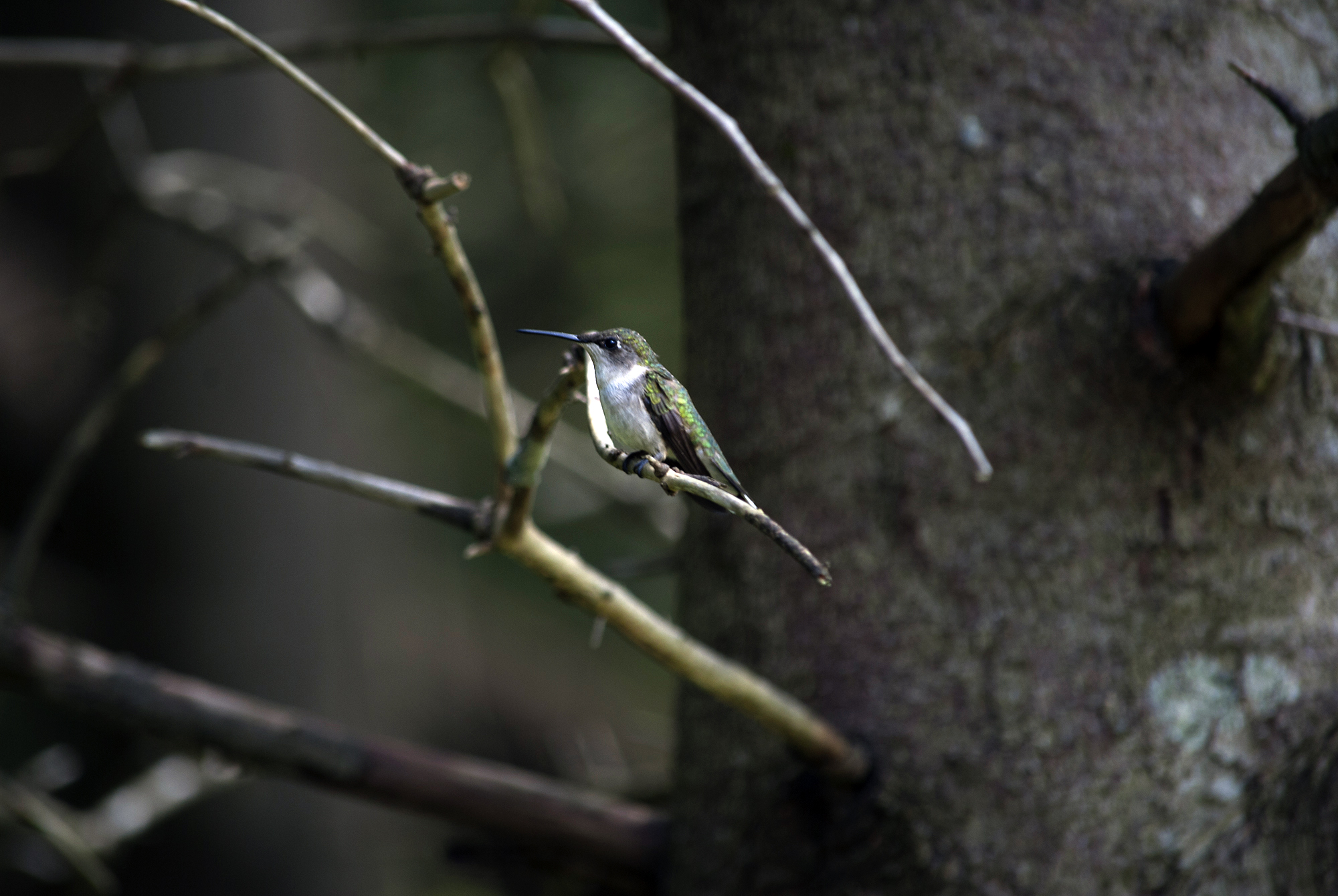 Ruby-throated Hummingbird, Quebec